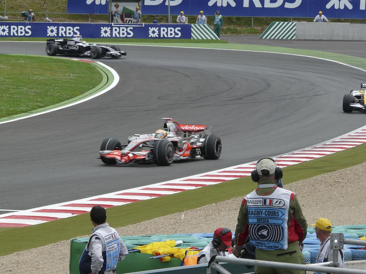 Lewis Hamilton at 2008 French Grand Prix